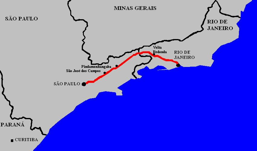 Presidente Dutra Highway-Brazil